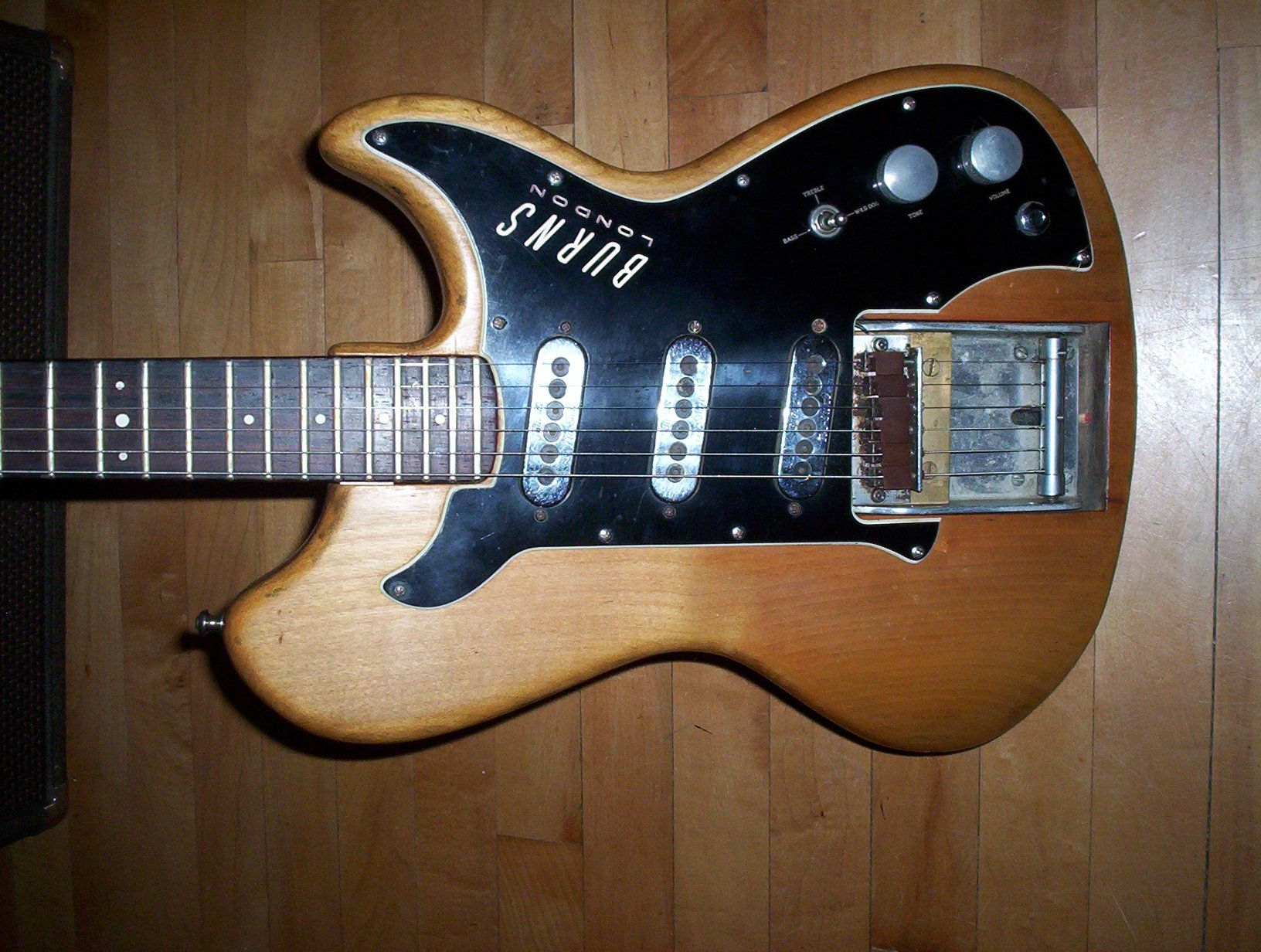 Close-up of a 1962 Burns Vista Sonic, original finish missing. Note the Tri-Sonic pickups and the "Wild Dog" tone setting.